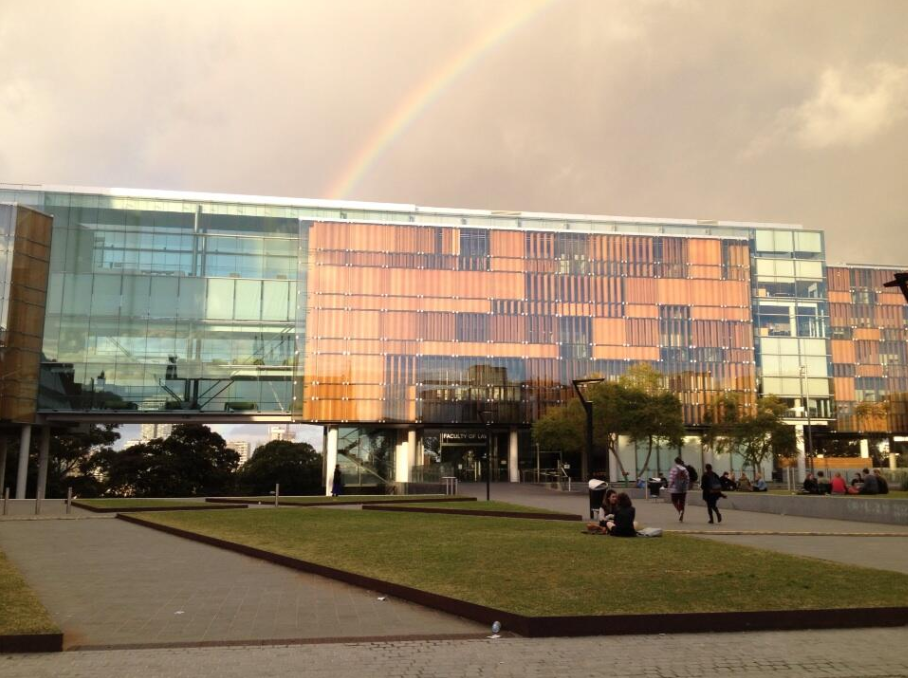 Sydney Law School, University of Sydney, Camperdown, New South Wales, Australia.